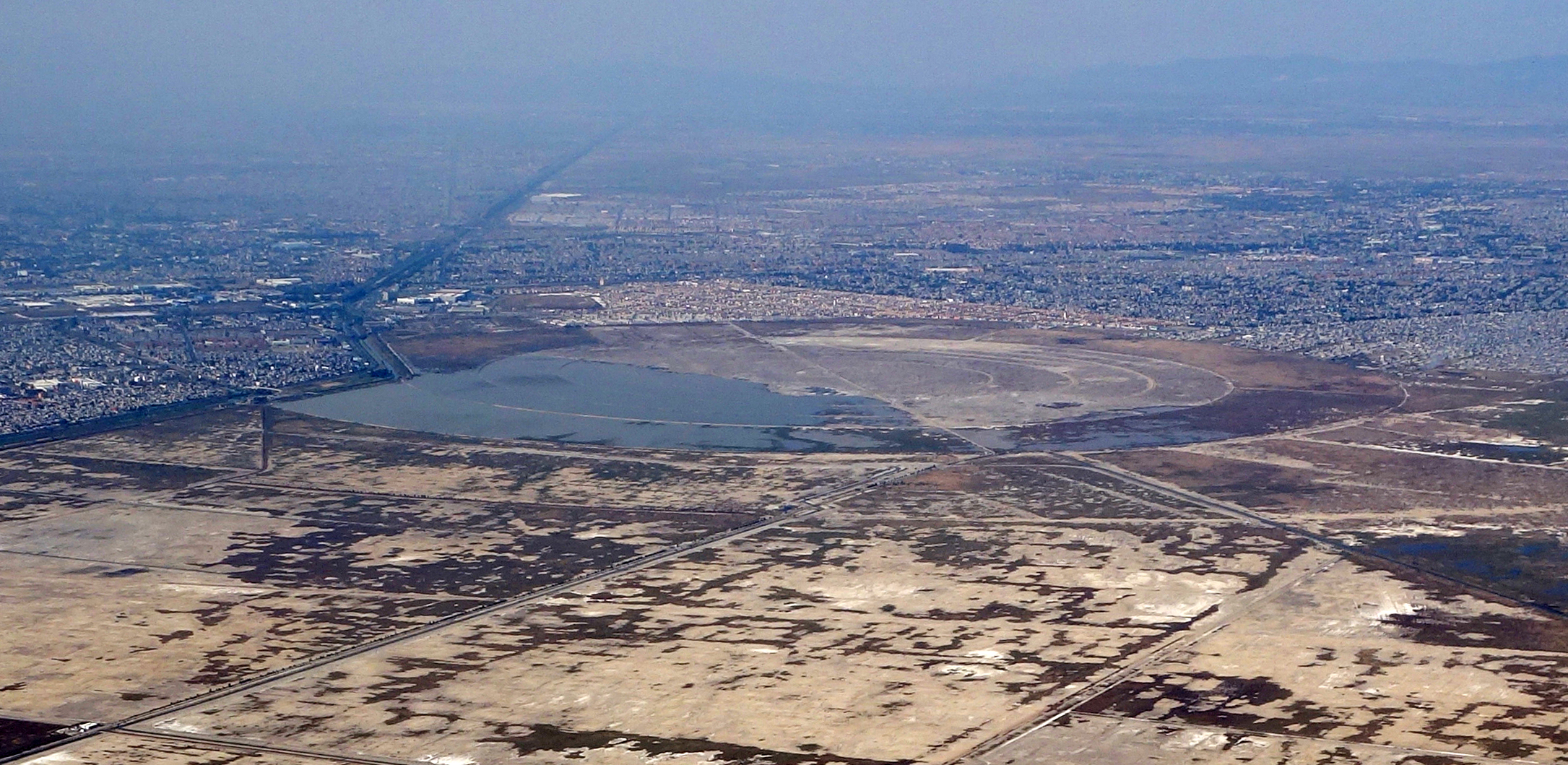 El Caracol in Ecatepec, Mexico